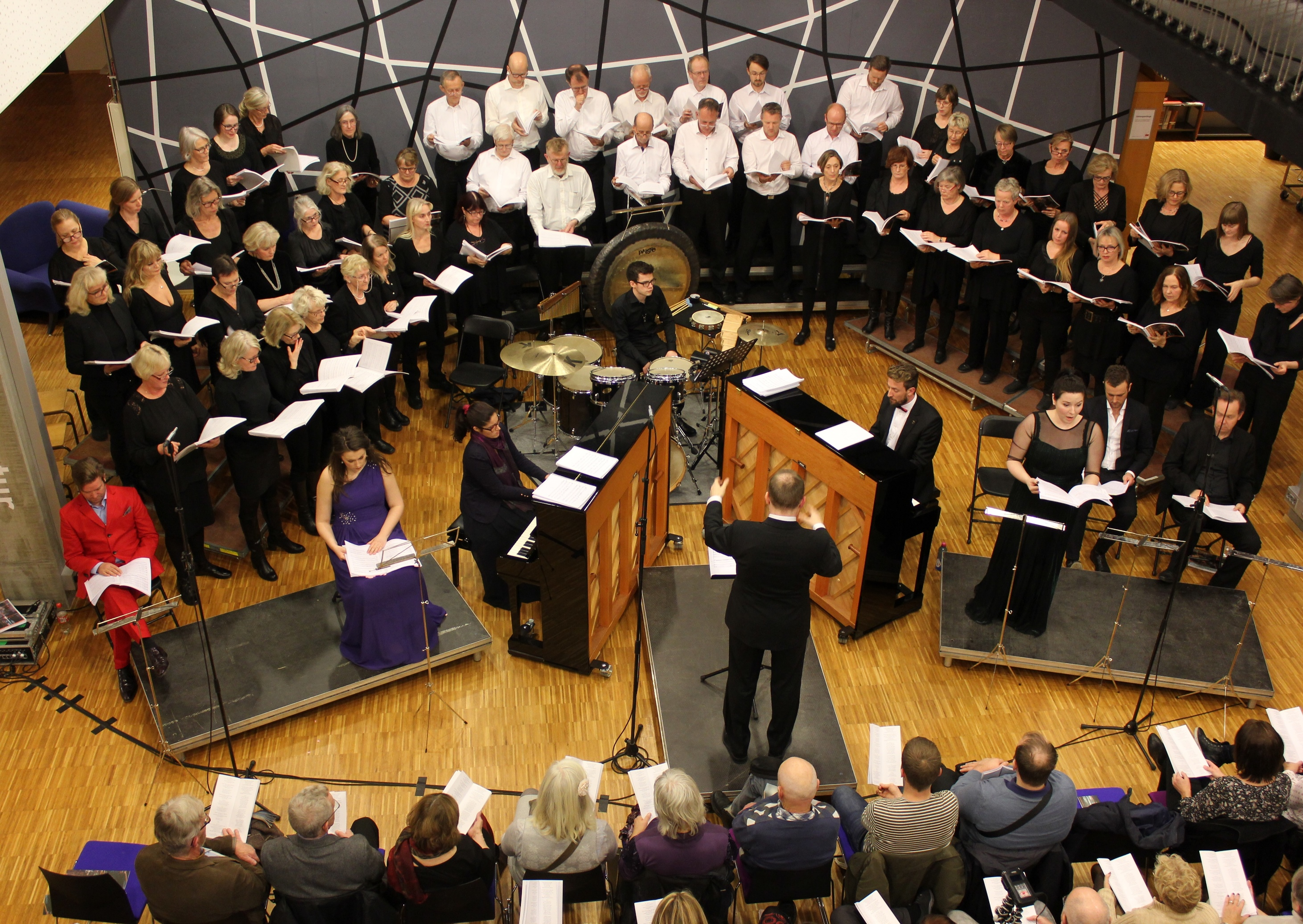 Ole Karsten Sundlisæter med Stavanger oratoriekor på Garborgsenteret.